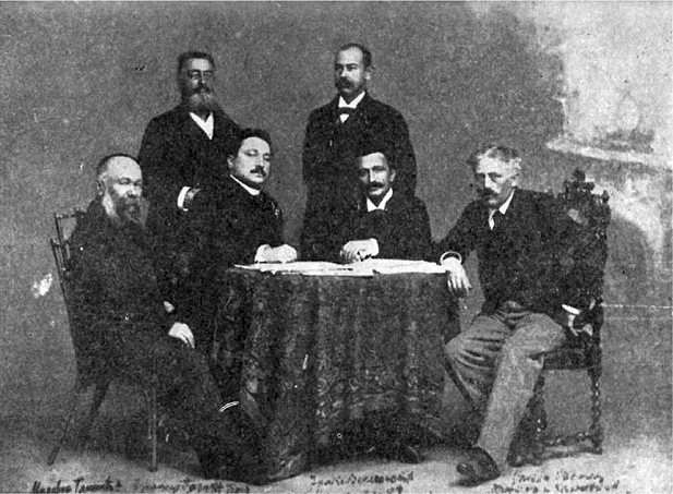 Fellow Serbian writers Milovan Glišić, Aleksandar Sumbatov Južin, Branislav Nušić (sitting), Dragomir Brzak and Janko Veselinović. Srpski (latinica): Srpski pisci: Milovan Glišić, Aleksandar Sumbatov Južin, Branislav Nušić (sede), Dragomir Brzak i Janko Veselinović.